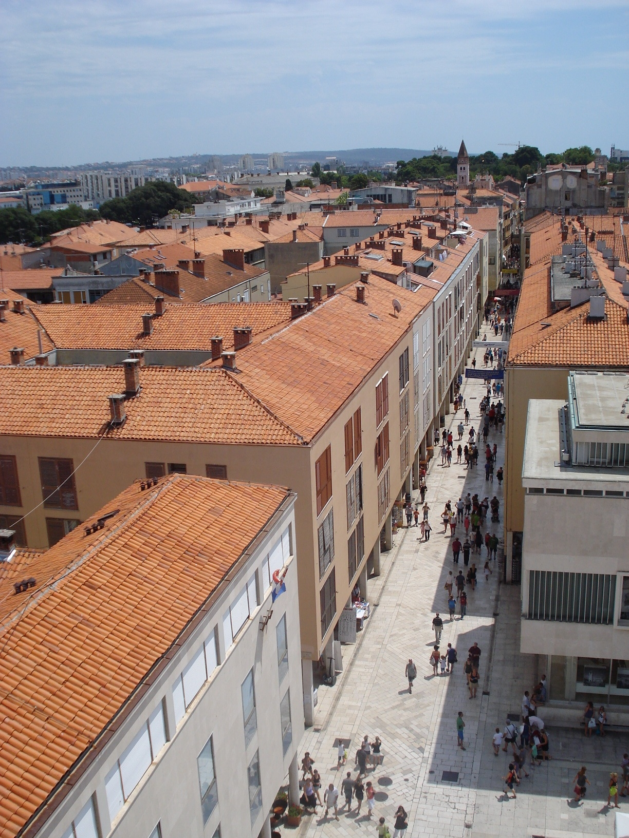 Široka ulica ("Kalelarga", Wide street) - the main street of Zadar, CroatiaHrvatski: Široka ulica ("Kalelarga") - glavna ulica u Zadru, Hrvatska